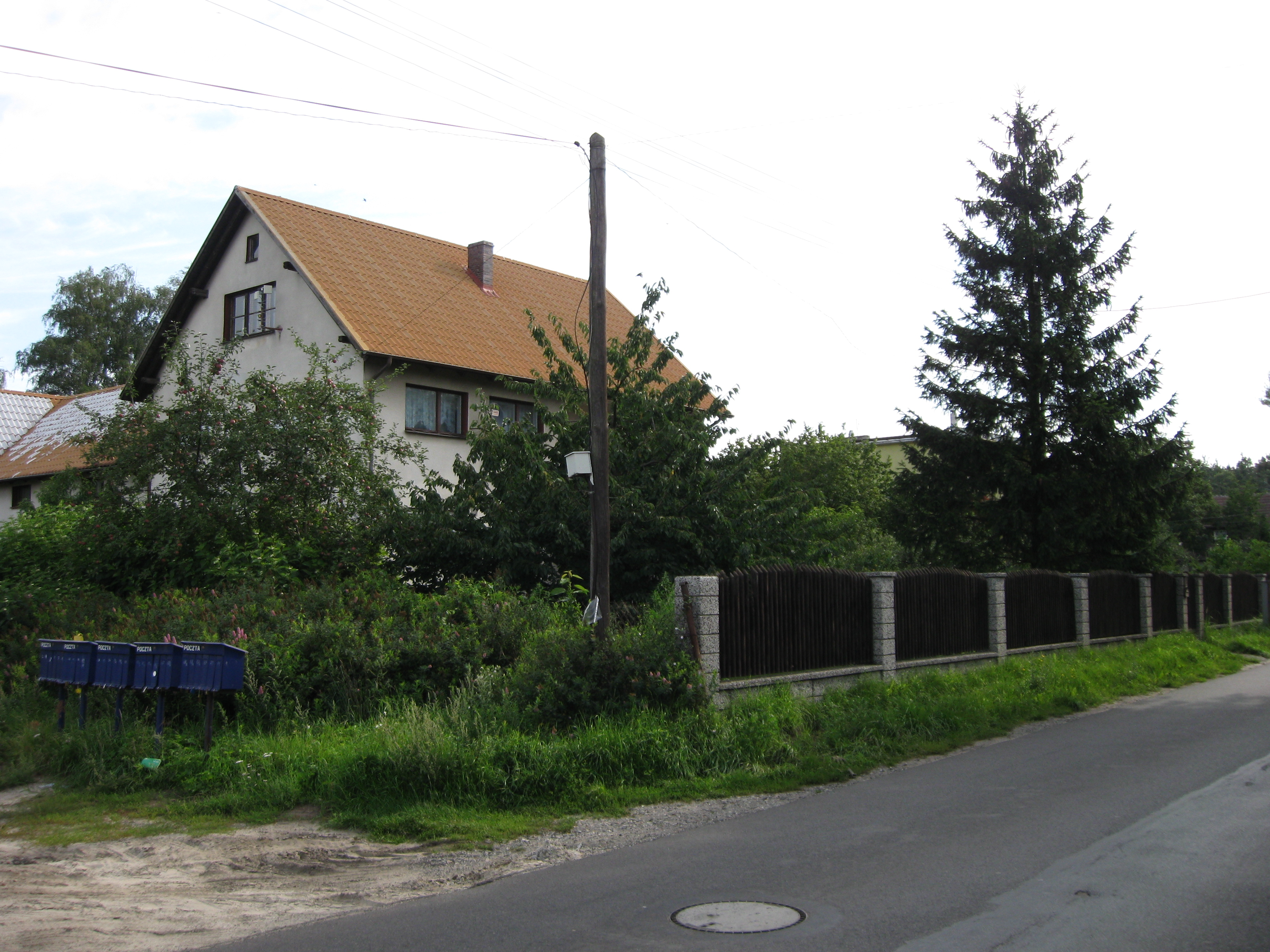 Photo village Kliniska Małe